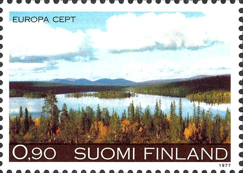 Postage stamps of Finland, 1977. Issue on the program EUROPE-CEPT